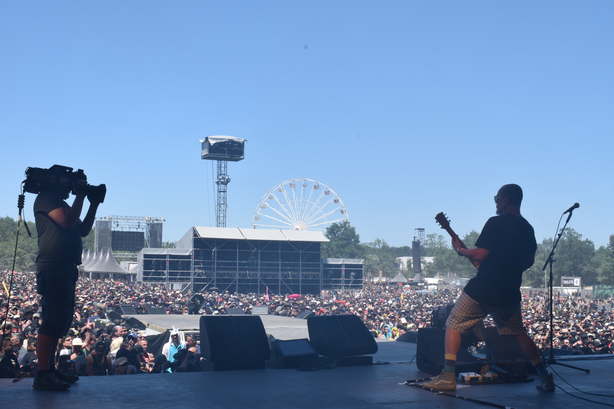 Dave Fortman performing with Ugly Kid Joe at Hellfest in France, June 17th 2017.